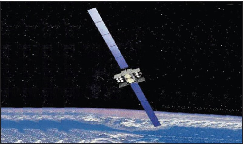 WGS is a joint Air Force and Army program intended to provide essential communications services to U.S. warfighters, allies, and coalition partners during all levels of conflict short of nuclear war. It is the next- generation wideband component in DOD’s future Military Satellite Communications architecture and is composed of the following principal segments: space segment (satellites), terminal segment (users), and control segment (operators).